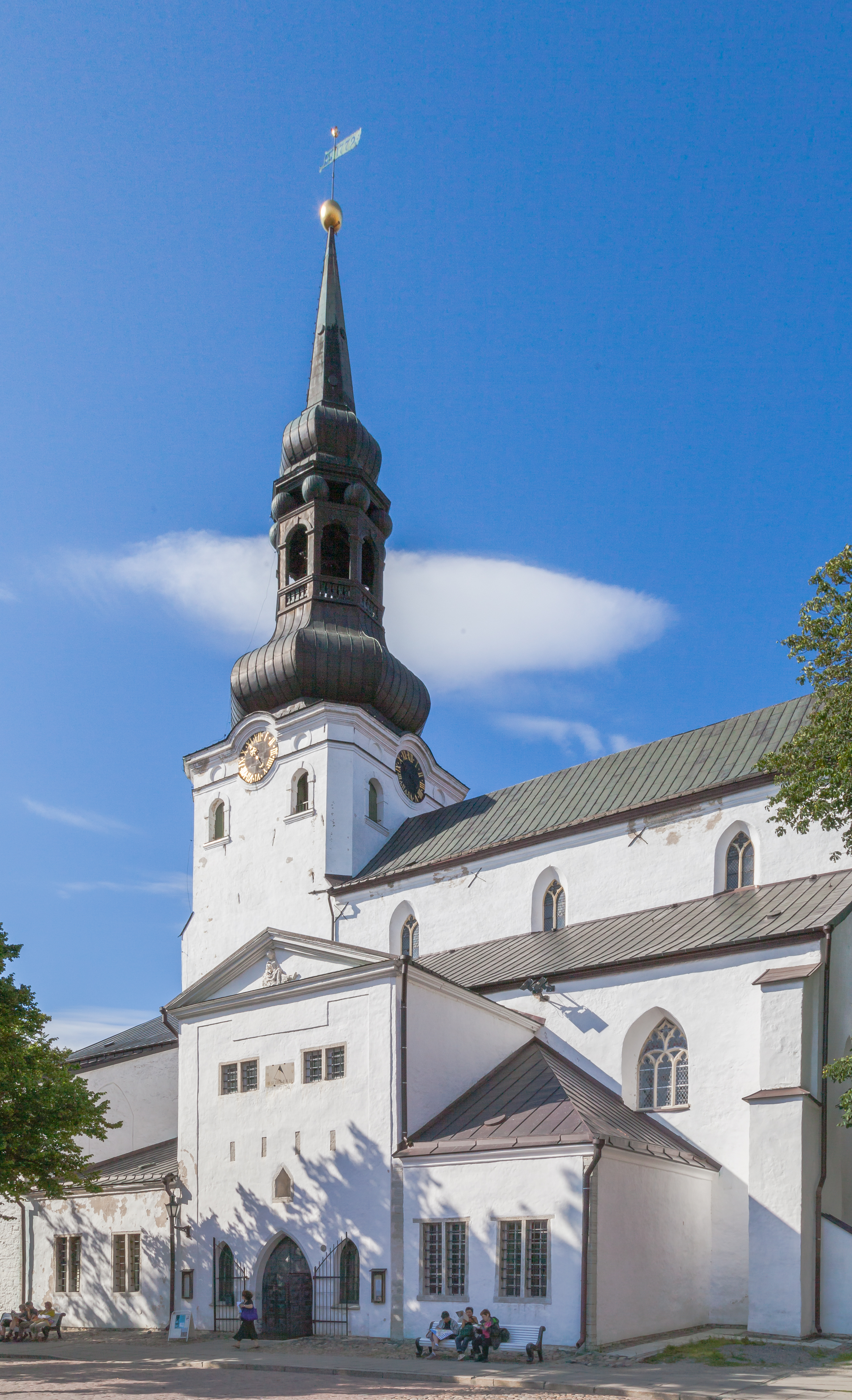 Cathedral of Saint Mary, Tallinn, Estonia